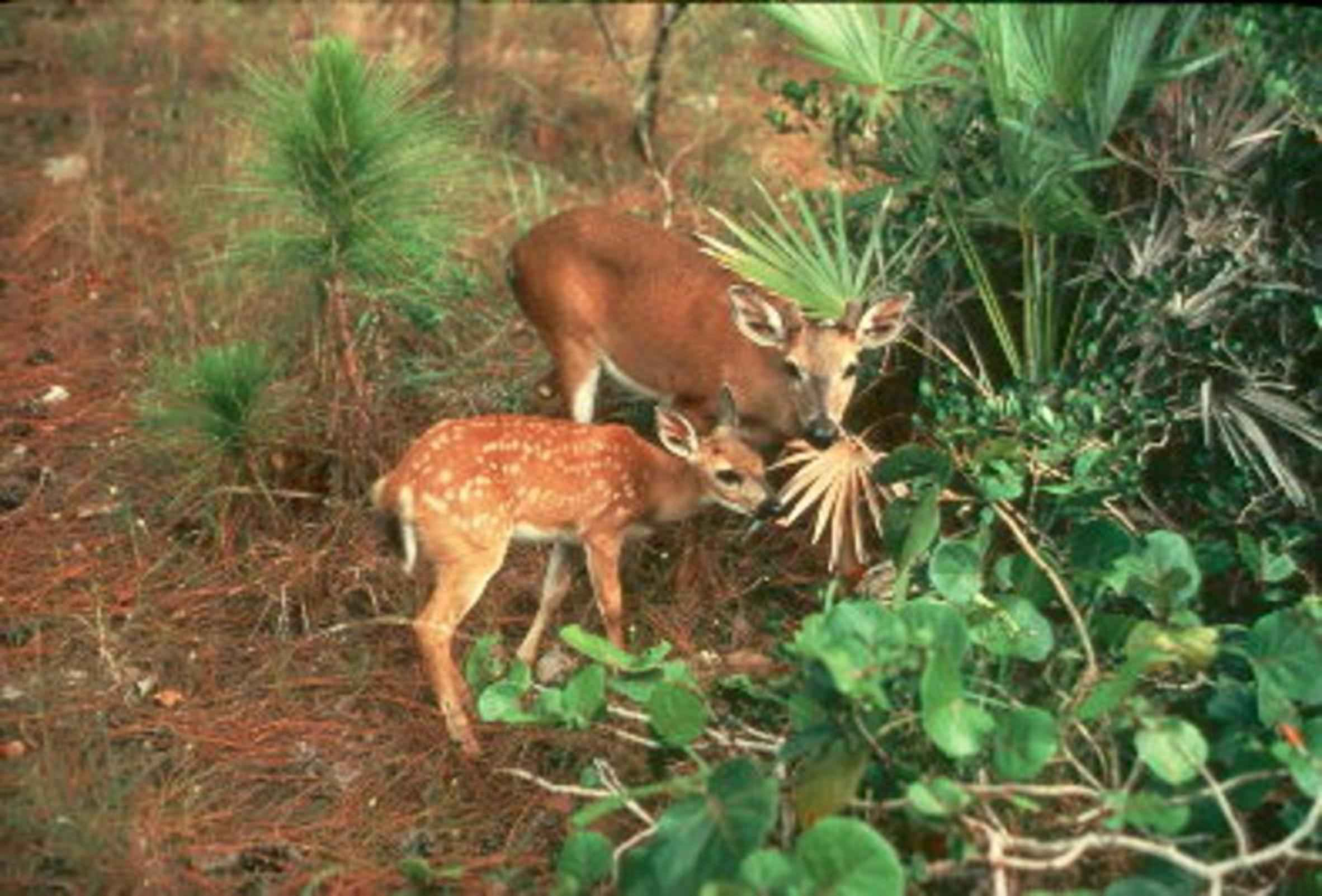 Image title: Mother and young key deer odocoileus virginian clavium Image from Public domain images website